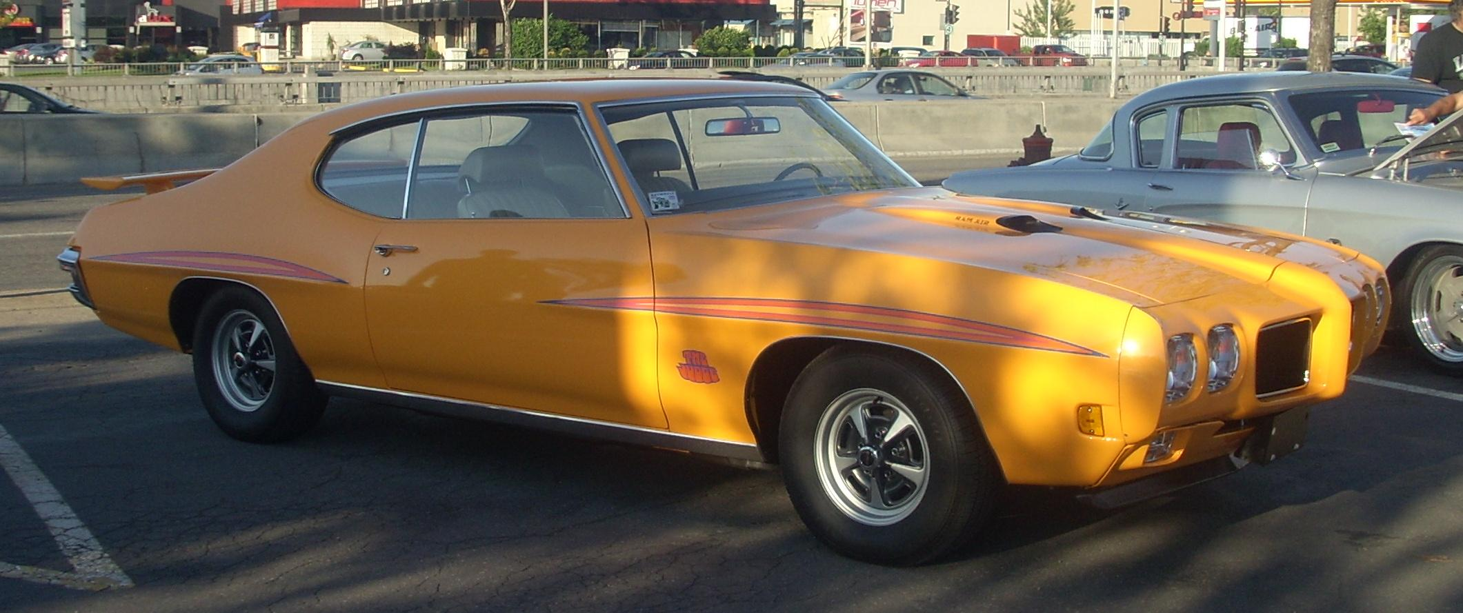 Pontiac GTO photographed in Montreal, Quebec, Canada at Gibeau Orbit Orange.